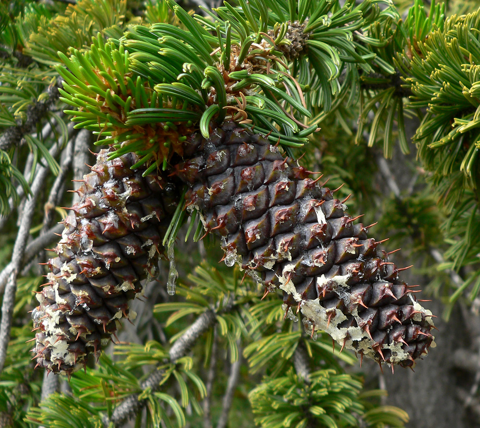 Pinus longaeva on the North Loop trail east of Mummy Mountain, Spring Mountains, southern Nevada (elev. about 2900 m)